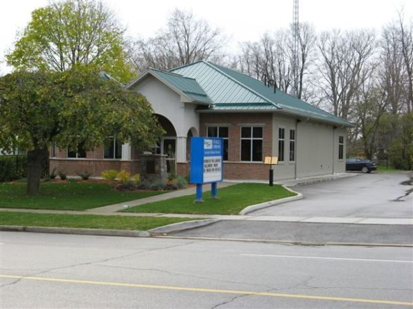 Scotland-Oakland branch of the County of Brant Public Library, located at 281 Oakland Road.